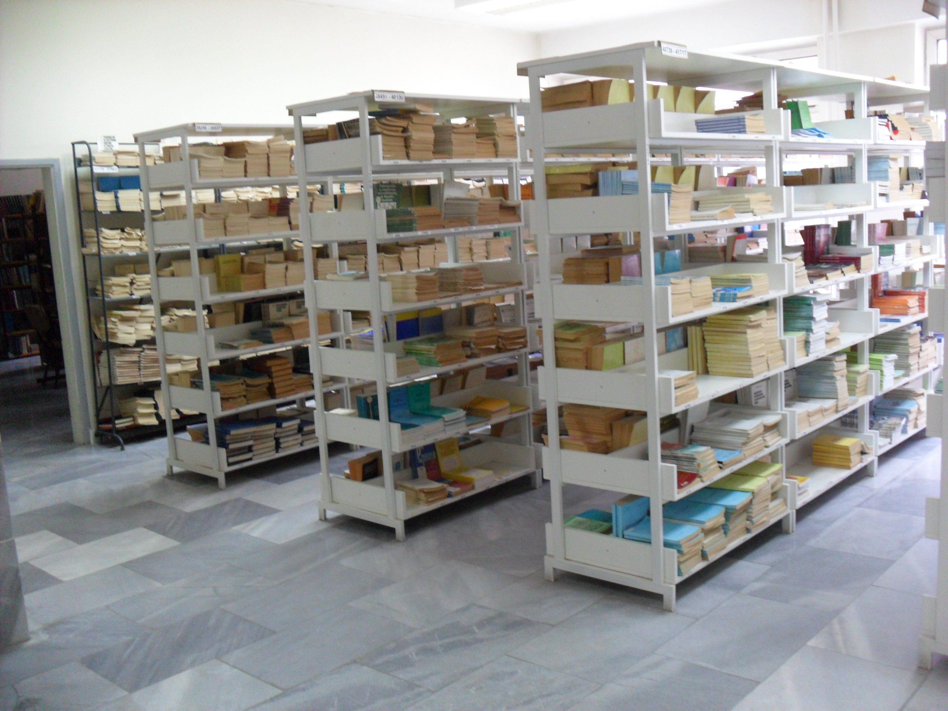 New books in the library of the Technical University of Varna